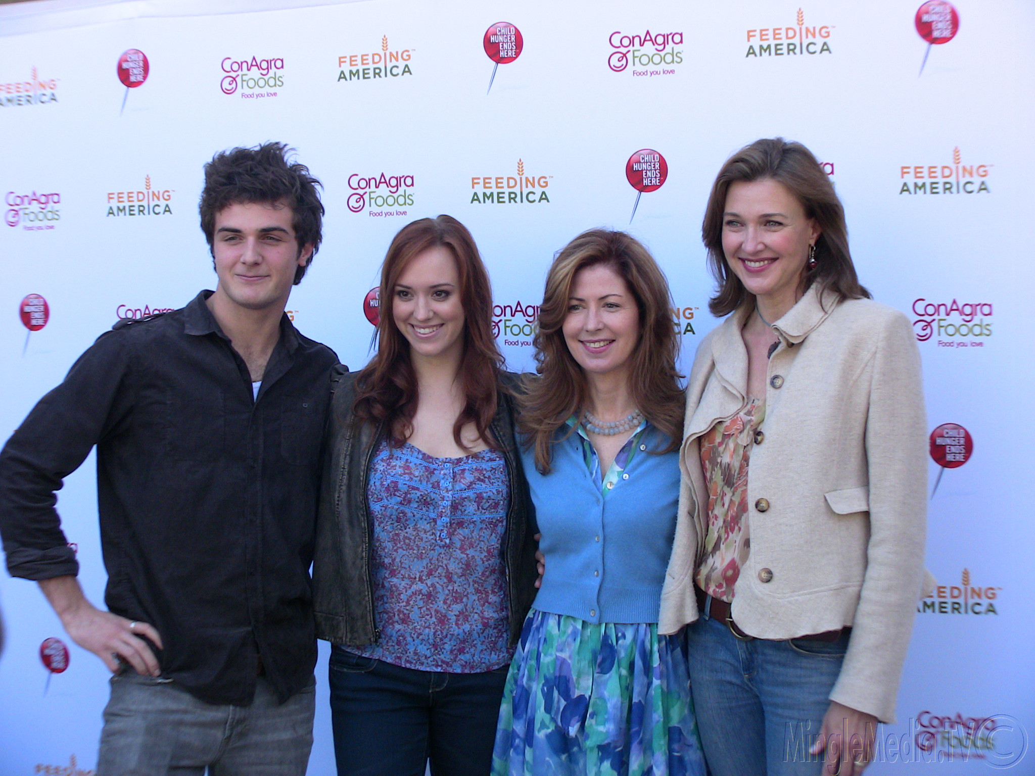 Beau Mirchoff, Andrea Bowen, Dana Delany and Brenda Strong on the April 7 Mingle Media TV was invited to join a rally of Celebrity friends to help end Child Hunger in the US. In attendance were 14 mom bloggers from around the country who will be doing a community event in their neighborhoods to help get the word out and end hunger for all children in the United States.